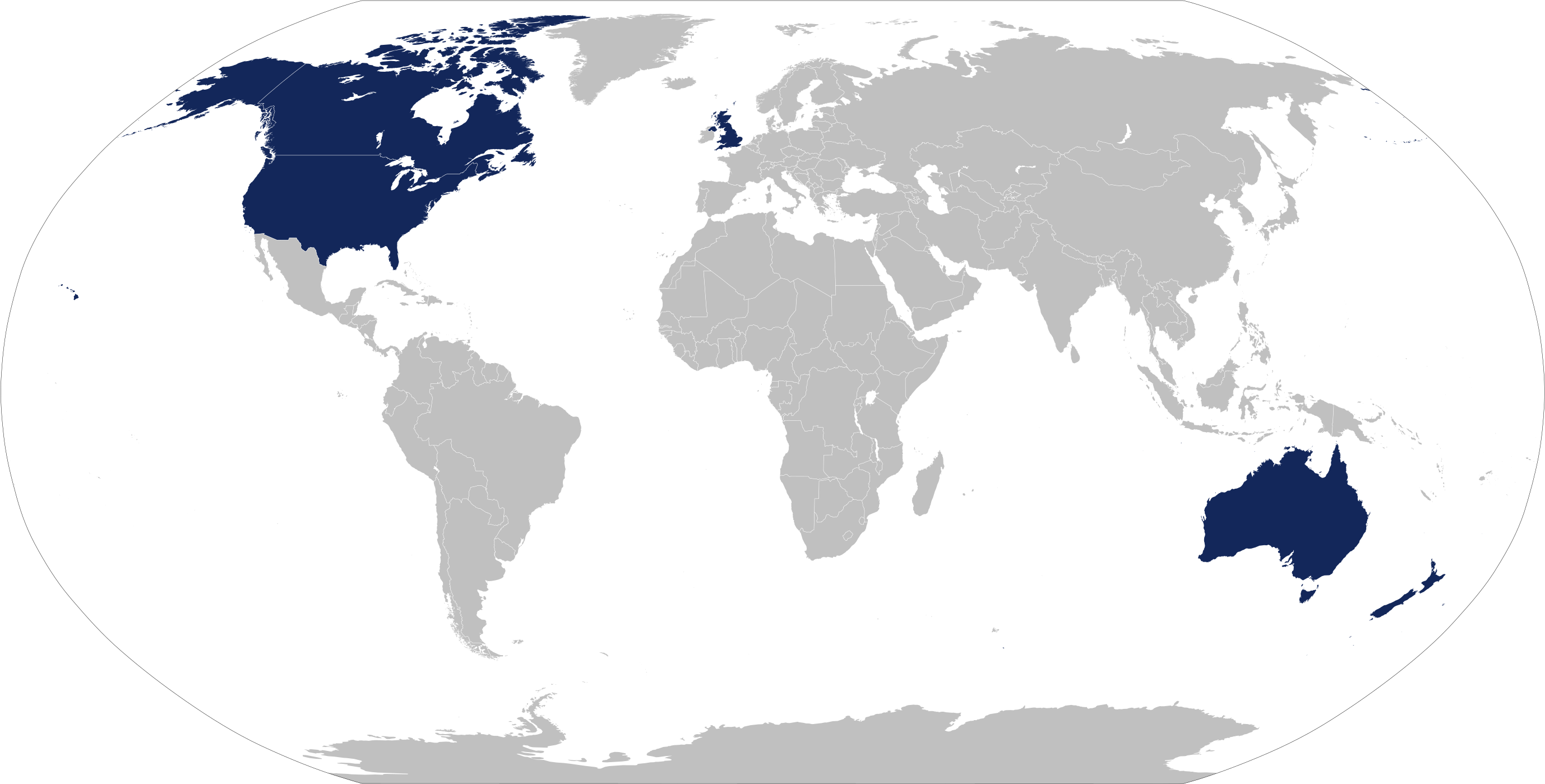 Depicts constituent nations of the UKUSA community